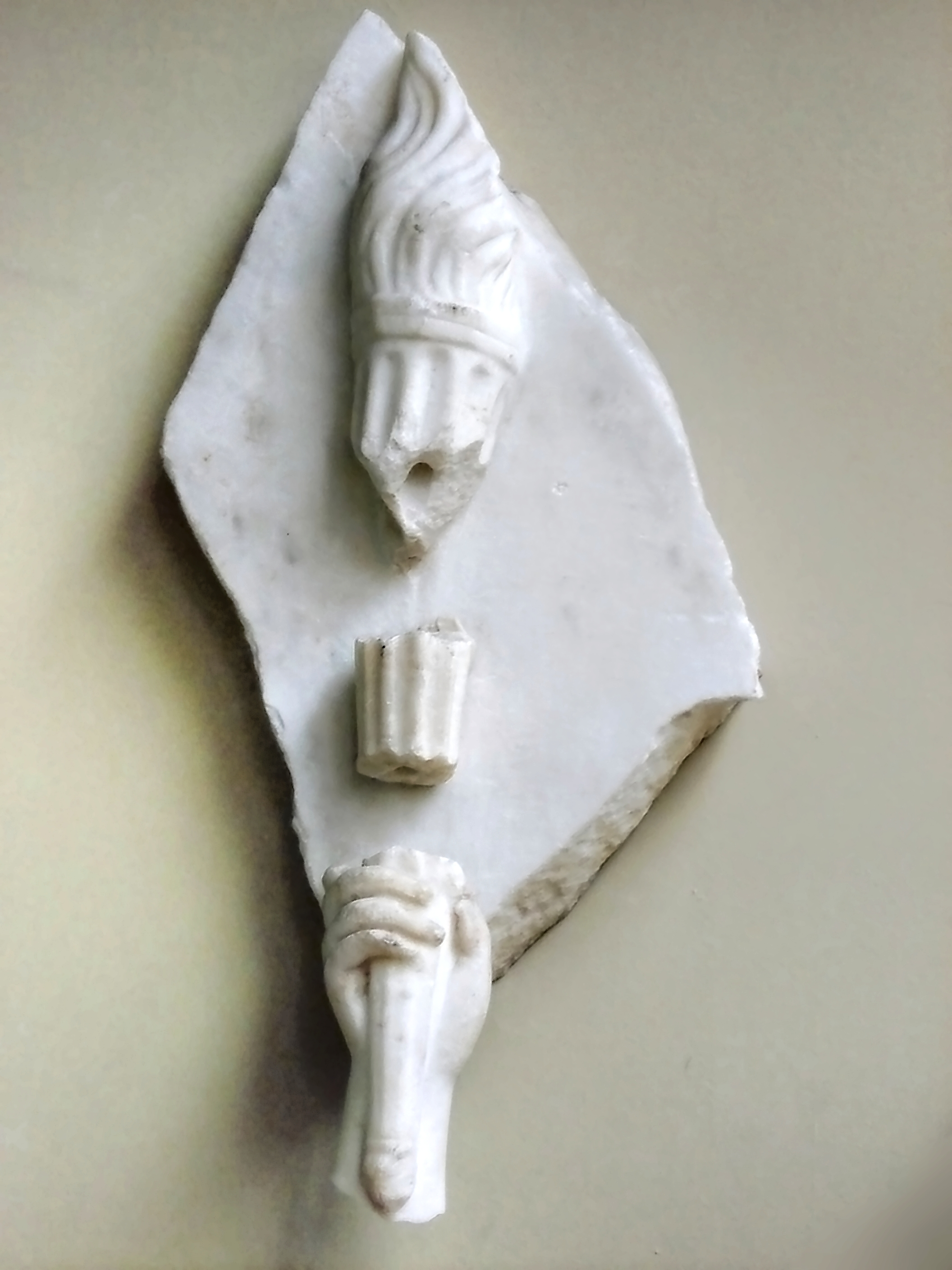 Broken Liberty: Li-ber-ty, Istanbul Archaeological Museums. Found at Istanbul.